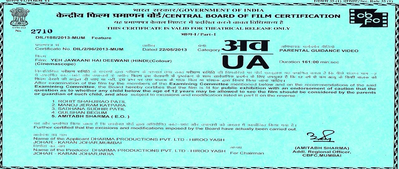 Yeh Jawaani Hai Deewani Censor certificate